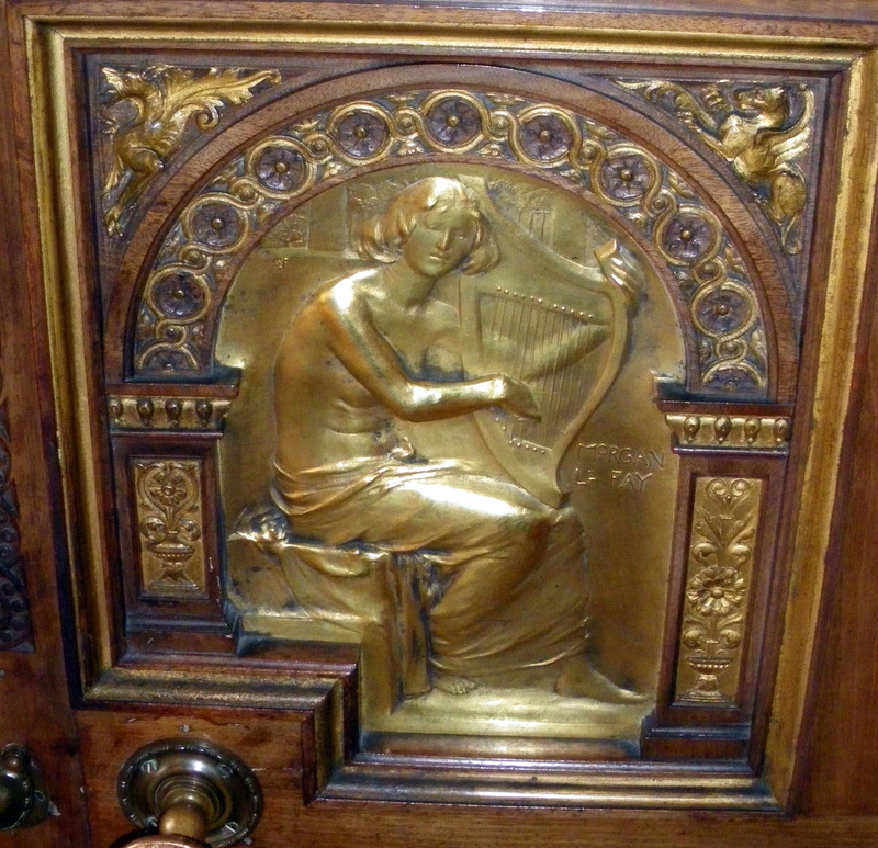 One of nine panels in a door a 2 Temple Place in London. These feature low reliefs by Sir George Frampton. R.A. They depict the nine heroines of Tennyson's version of Malory's Arthurian Legend. This panel, the fourth and positioned to the left of the centre row of three panels, depicts "Morgan le Fay"